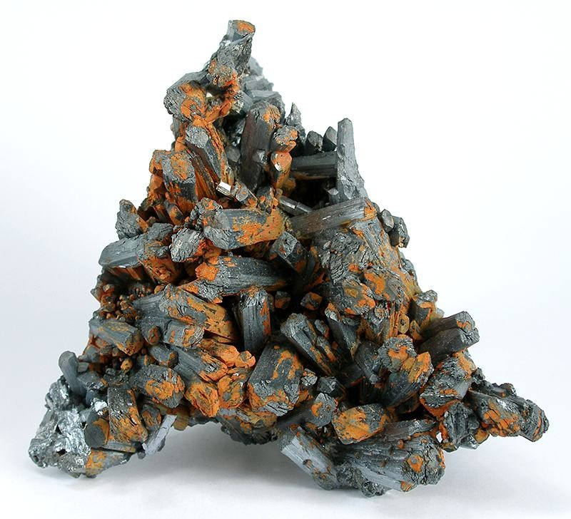 Ottensite, Stibnite Locality: Qinglong (Dachang) Sb-Au deposit, Qinglong County, Qianxi'nan Autonomous Prefecture, Guizhou Province, China (Locality at ) Size: 8.5 x 8.3 x 4.3 cm. A relatively rich and relatively not-so-ugly-as-usual specimen of this new species, from the type and only location known so far. The stibnites measure to about an inch. Much of this material was lost before it was described, because it was "cleaned" off, and so few large specimens remained to be had. From the type locality, from the collection of Marcus Origlieri who helped analyze the new species.